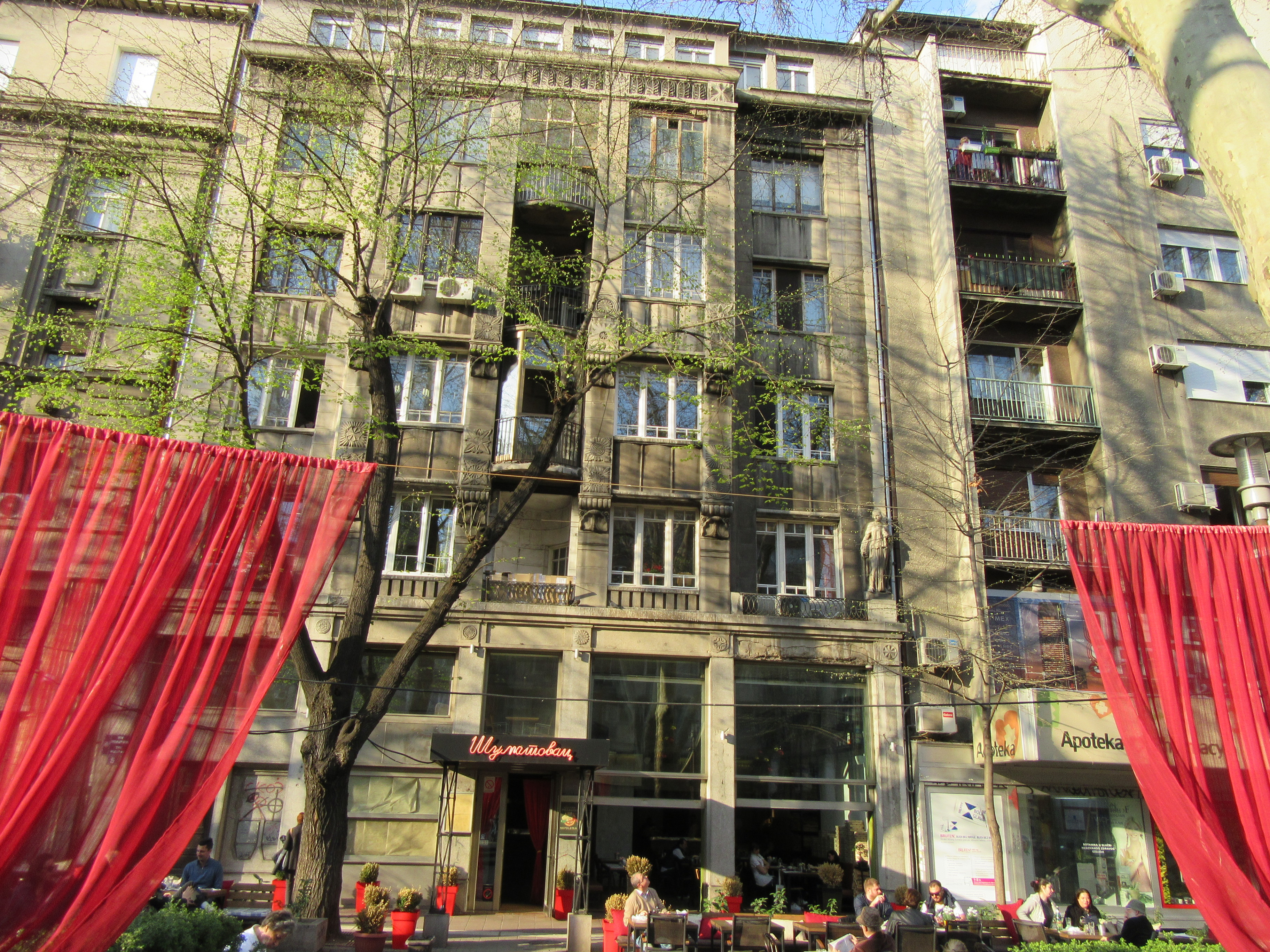 Šumatovac, Makedonska street, Belgrade, Serbia, 2019. Srpski (latinica): Šumatovac, Makedonska ulica, Beograd, Srbija, 2019.